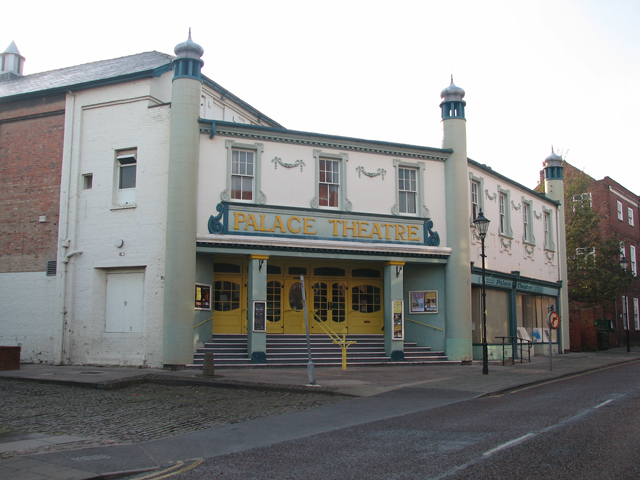 The Palace Theatre Newark's Palace Theatre opened for business on the 5th July 1920. It became a listed building in 1993, and is still going strong today.